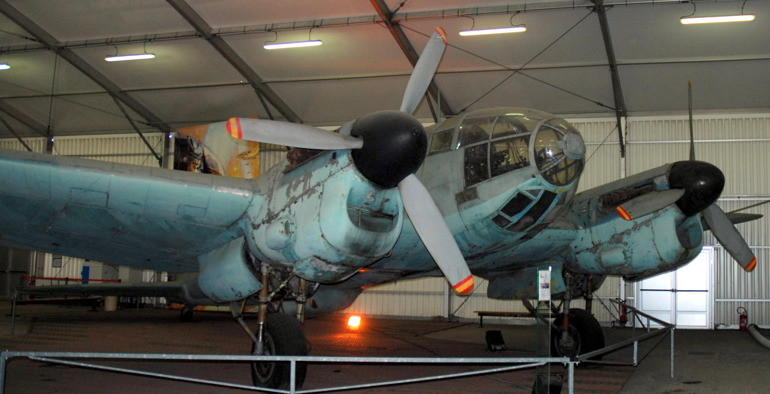 Photo ref; Nikon-D80-2013-DSC_1095 (Edited)